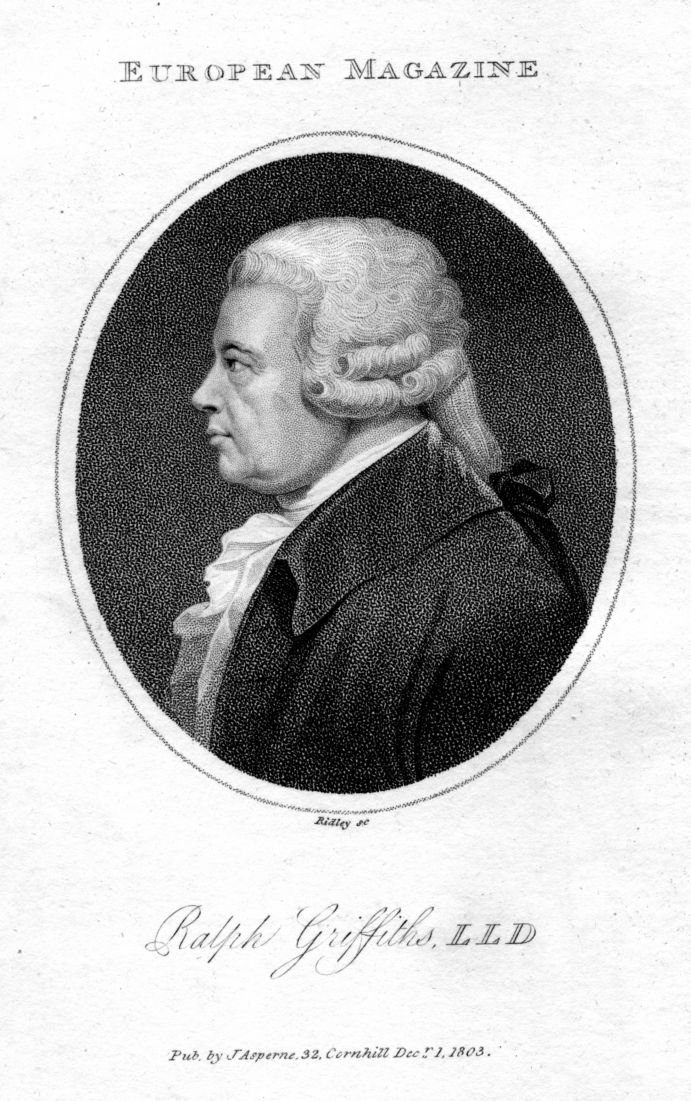 Engraving of Ralph Griffiths